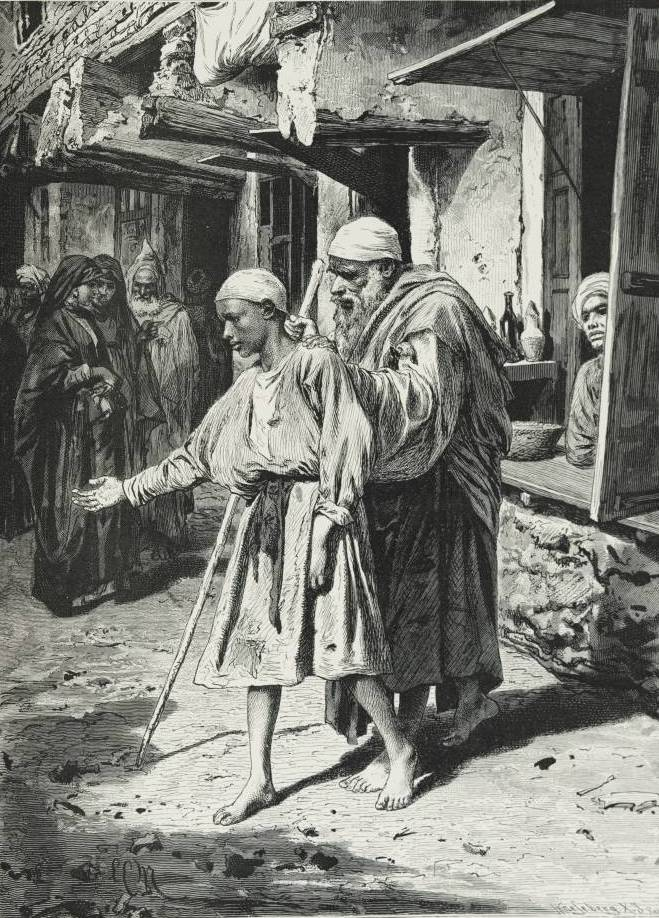 A blind beggar being helped through the street.